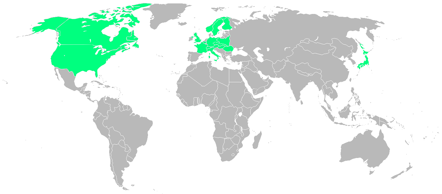 Countries which participated in the 1932 Winter Olympics.